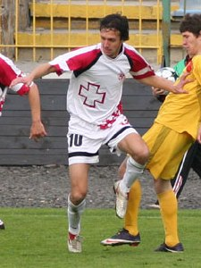 Vyacheslav Sharpar, forward of FC Metalist Kharkiv